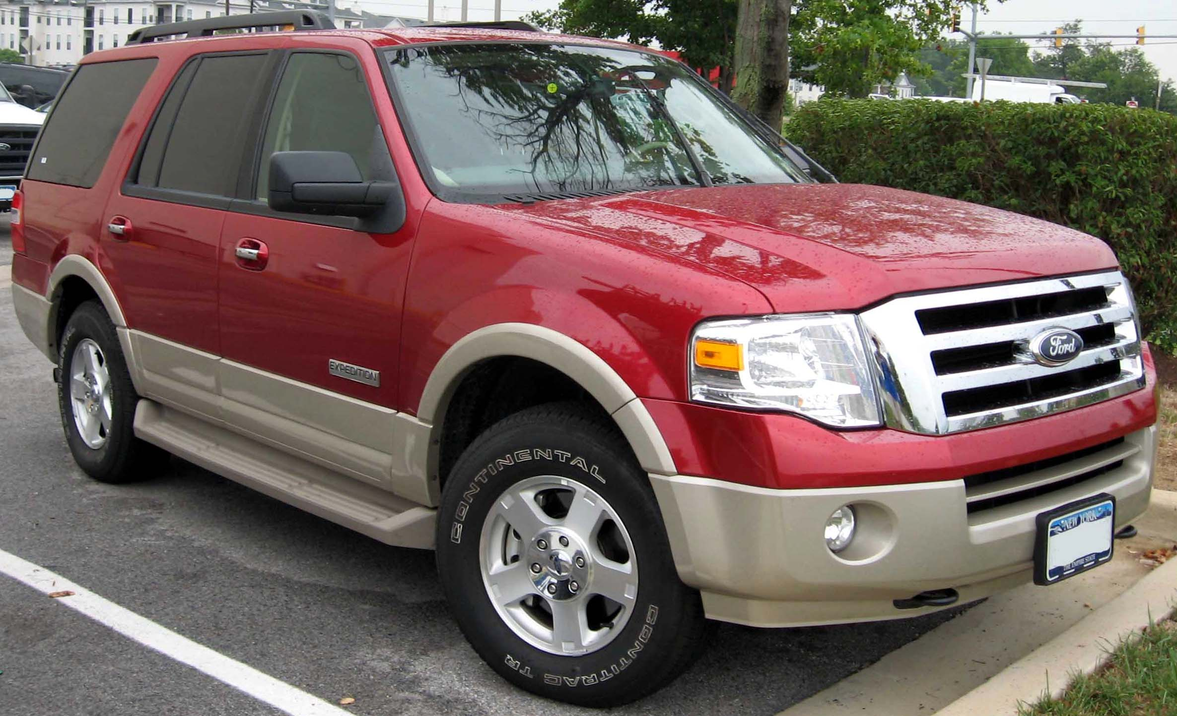 2007-2008 Ford Expedition photographed in College Park, Maryland, USA.